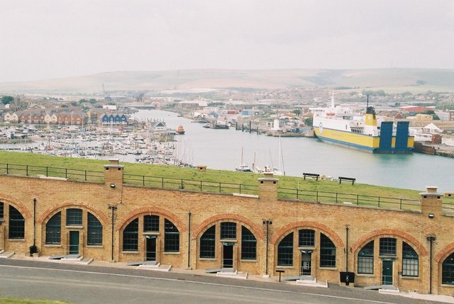 Newhaven: the fort and the port Looking upstream from within Newhaven Fort, at the port and marina.